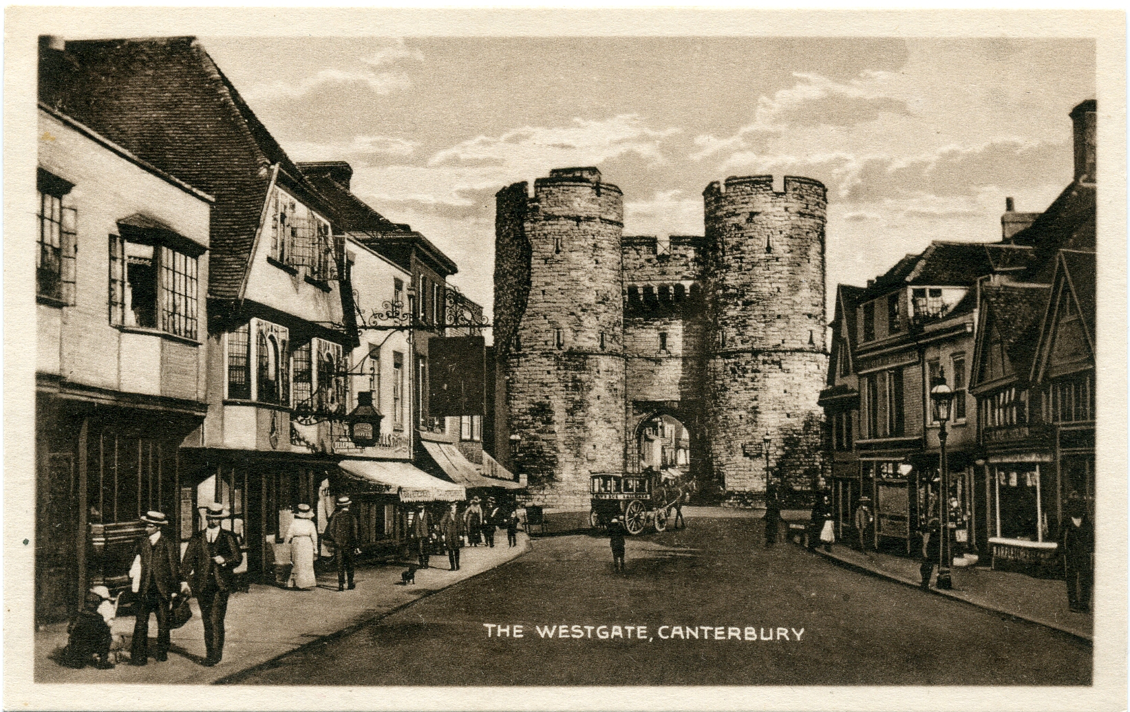 Postcard of Westgate Towers, Canterbury, Kent, England, dated 1900-1914. There was a military museum inside the Westgate from 1908.